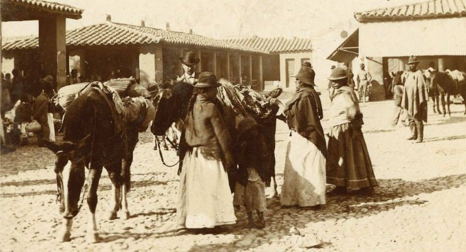 Aymara people of Jujuy, Argentina.